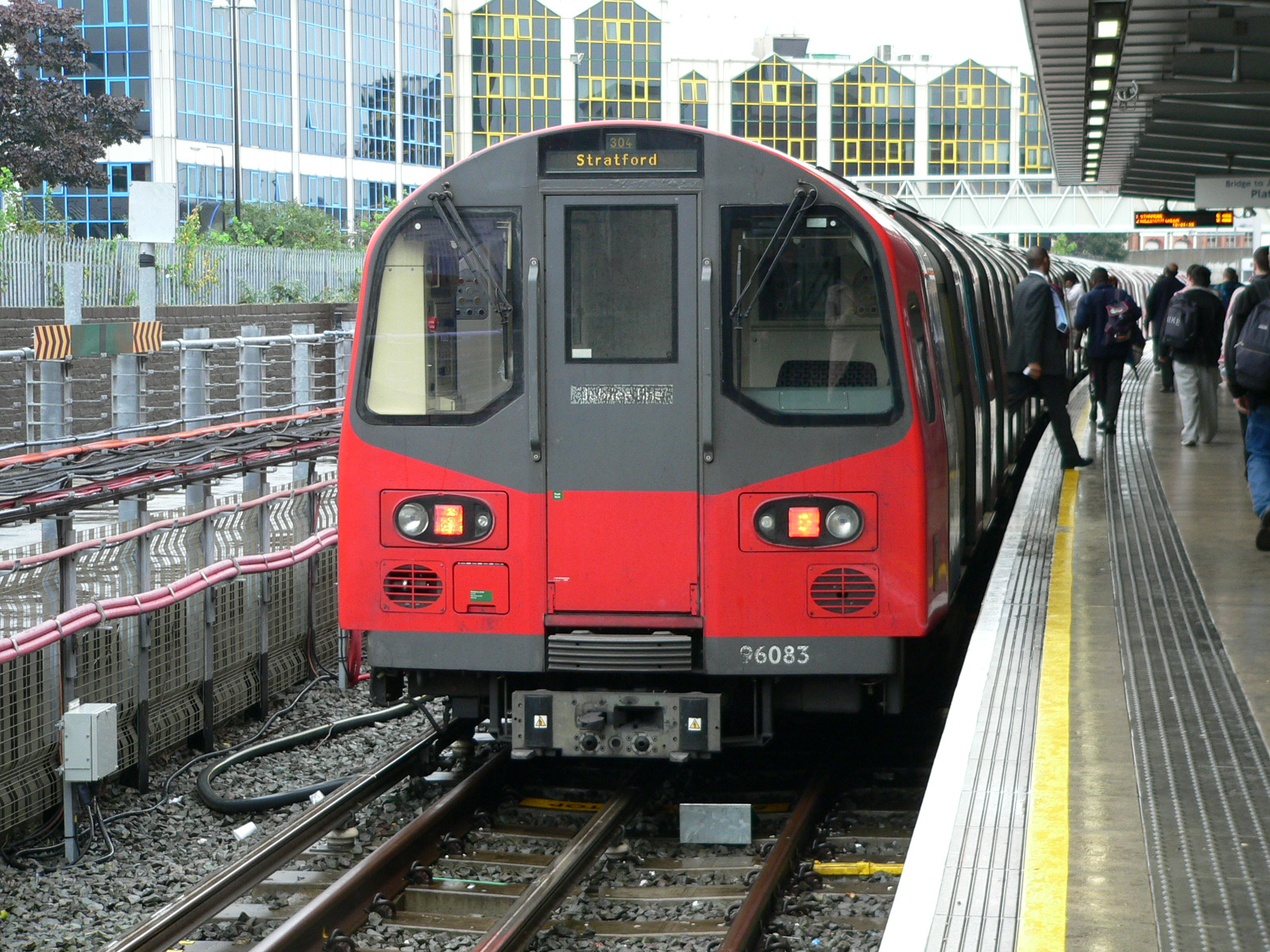 A London Underground 1996 tube stock train on the Jubilee Line at Stratford station in London.